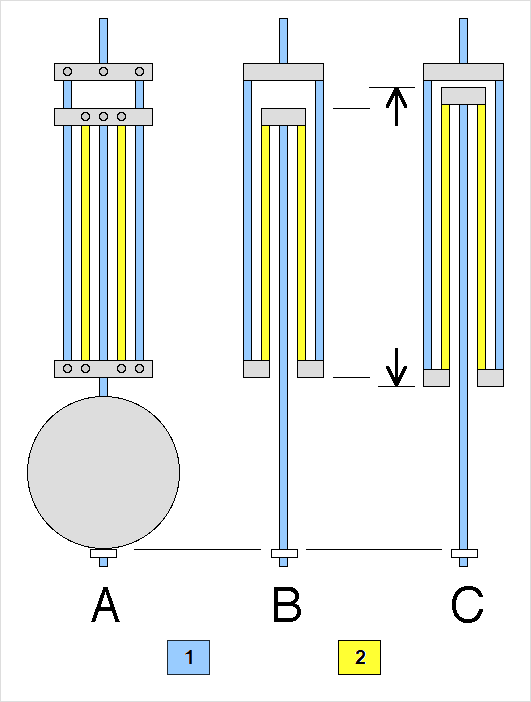 Diagram showing operation of temperature compensated "gridiron" pendulum, invented in 1726 by British clockmaker John Harrison. The pendulum uses rods of a high thermal expansion metal, zinc (yellow) to compensate for the expansion of rods of a low thermal expansion metal, iron (blue), so the overall pendulum doesn't change in length with temperature changes. Therefore the period of swing of the pendulum, and the rate of the clock, are constant with temperature. A: general external appearance of pendulum B: schematic at normal temperature C: schematic at higher temperature Created for and referenced from the English Wikipedia article Gridiron pendulum. Note: I can provide original drawing for conversion to scalable format.